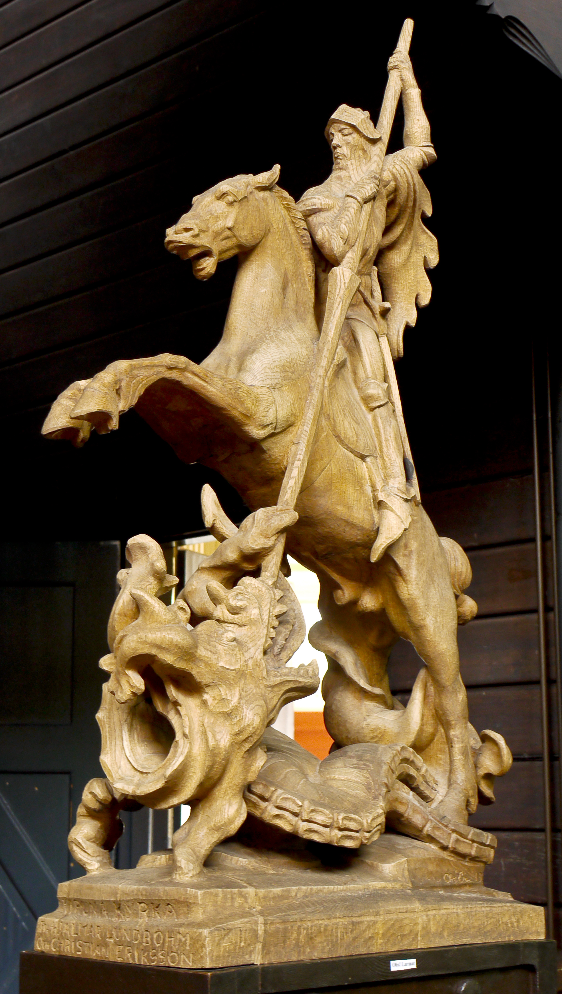 Kiruna kyrka/church, Diocese of Luleå, Kiruna, Sweden. Saint George and the Dragon, by Christian Ericsson.